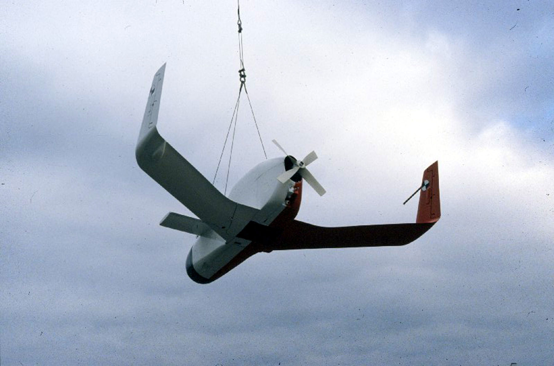 DAYTON, Ohio -- Boeing YCGM-121B Seek Spinner at the National Museum of the United States Air Force. (U.S. Air Force photo)